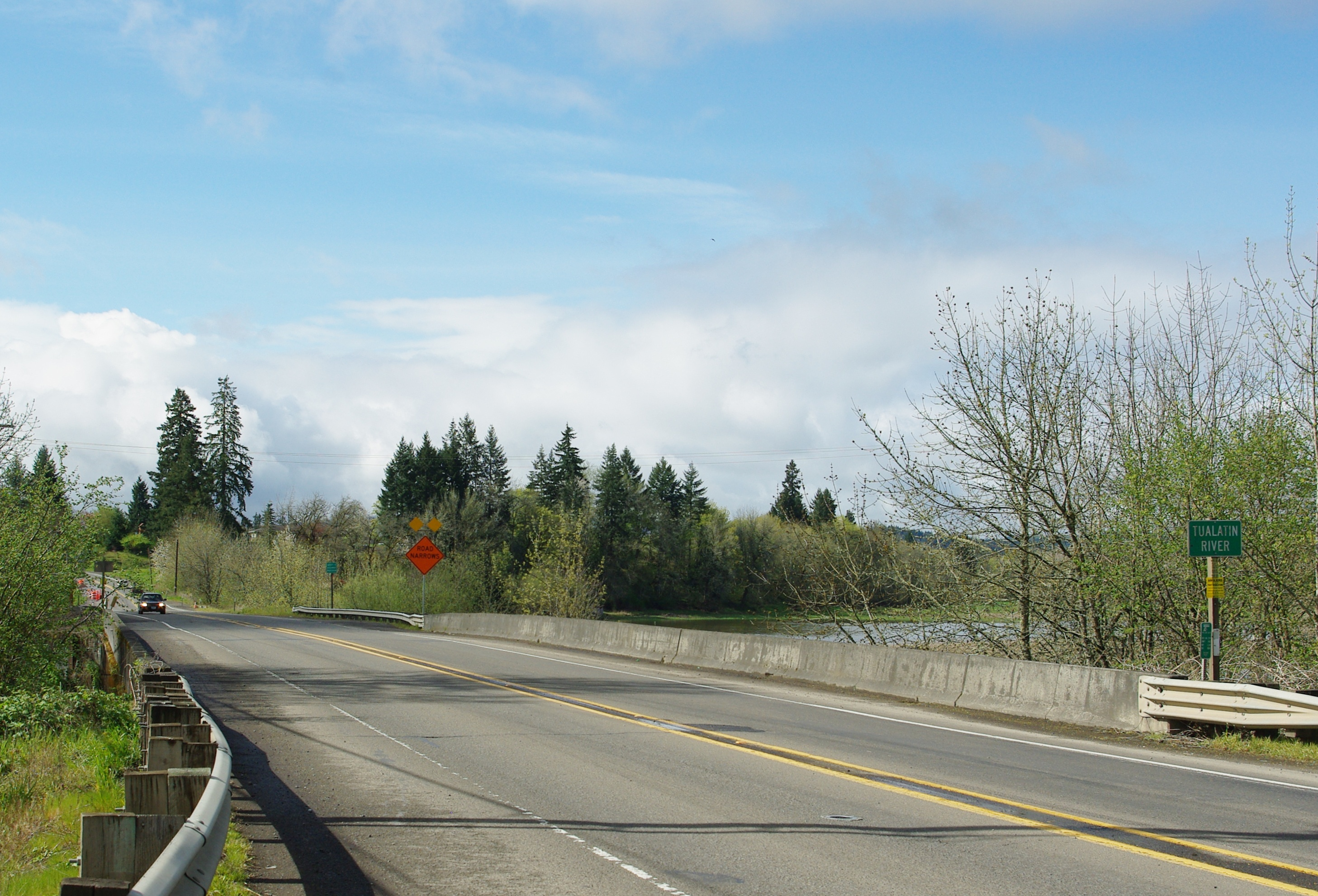 Oregon Route 219 coming over the Tualatin River at Hillsboro, Oregon